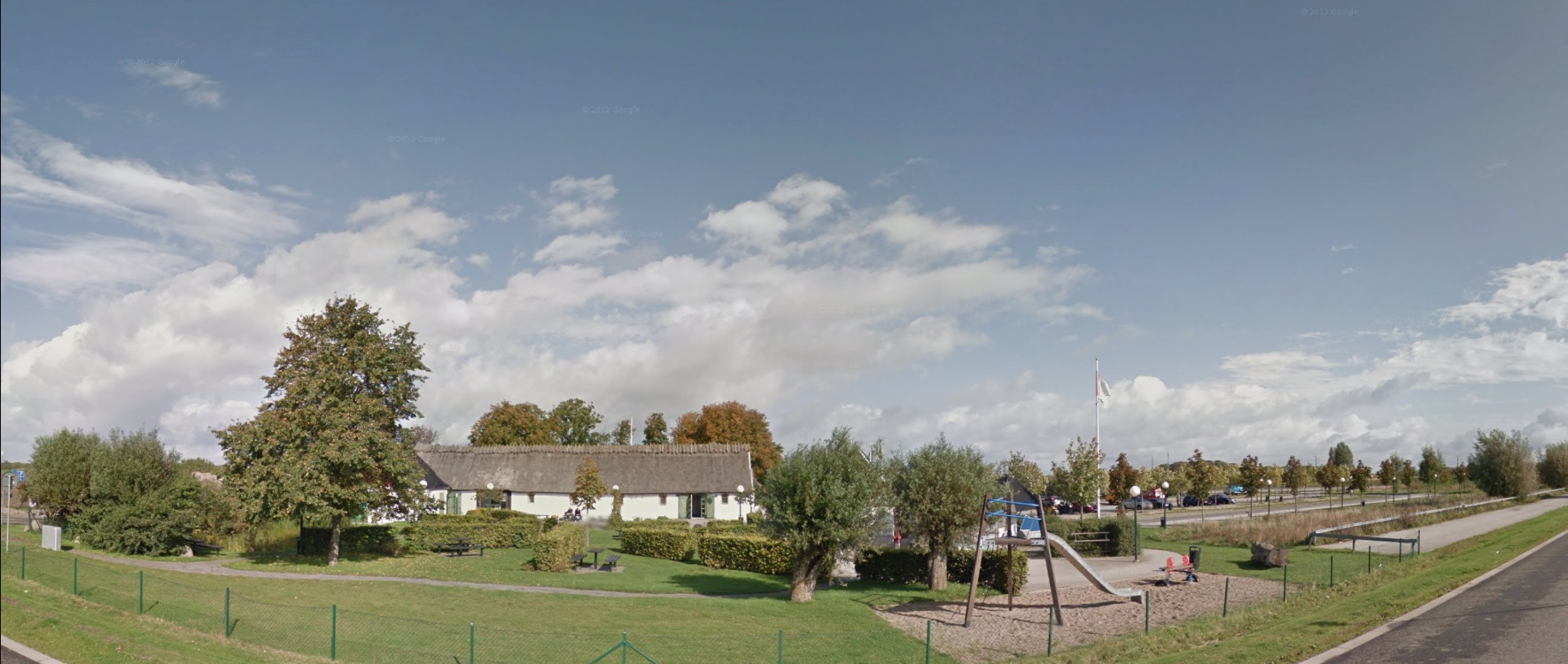 Skanegarden Annestad